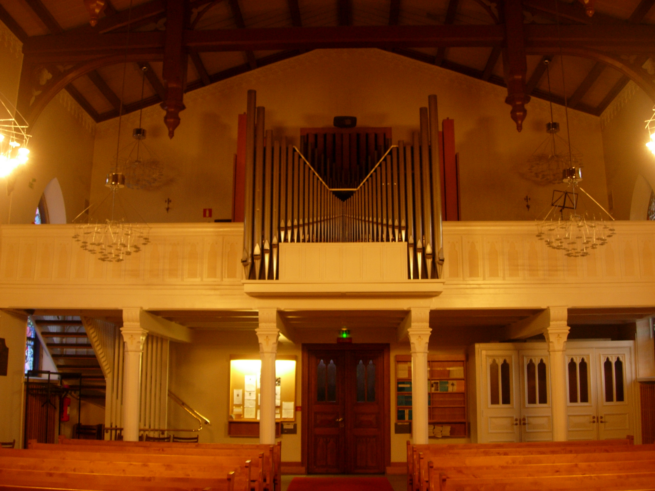 Organ loft of Helsinki Catholic Cathedral.